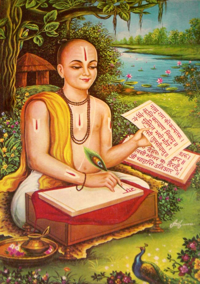 Tulsidas composing his famous Avadhi Ramcharitmanas; bazaar art, 1940's Source: ebay, May 2005